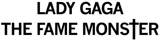 Logo taken from the cover art from Lady Gaga's album "The Fame Monster". Cover art credits go to Hedi Slimane.